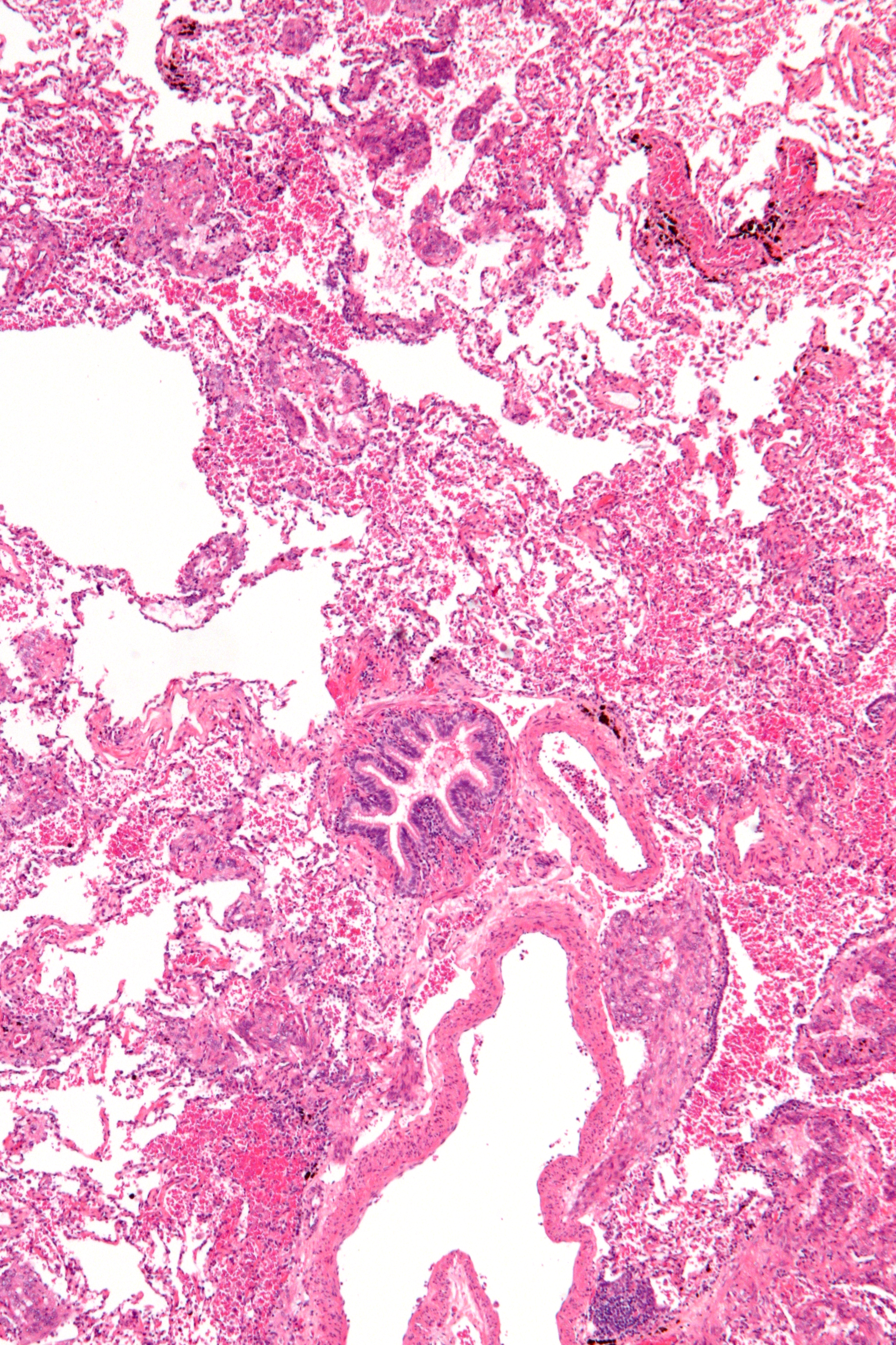 Low magnification micrograph of lymphangioleiomyomatosis (LAM), also lymphangiomyomatosis. LAM is a rare lung disease that predominantly affect women of childbearing age and is associated with tuberous sclerosis. Related images Very low mag. Intermed. mag. High mag. Very high mag.